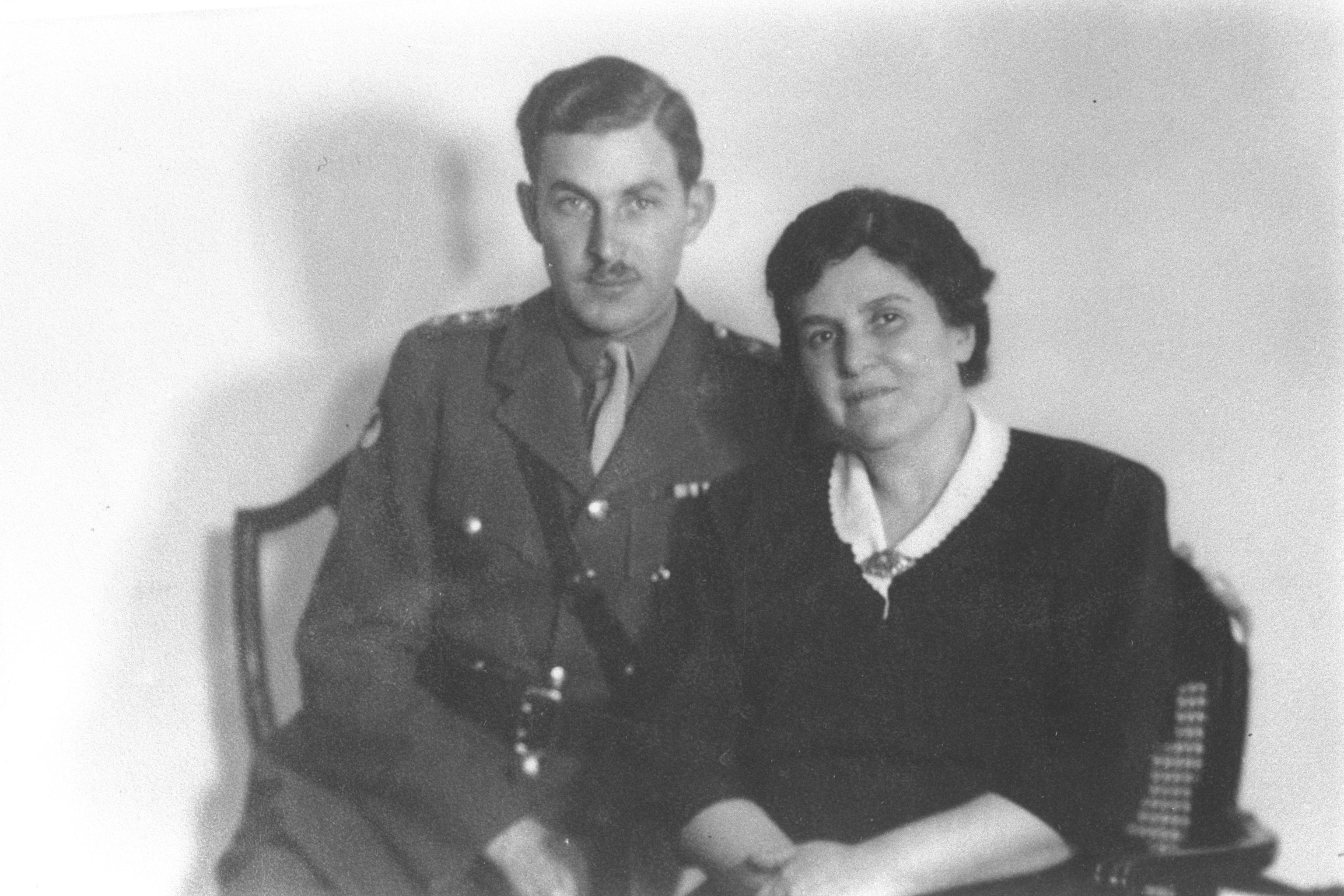 CHAIM HERZOG IN A BRITISH ARMY UNIFORM POSING WITH HIS MOTHER, RABBANIT SARA HERZOG. חיים הרצוג במדי הצבא הבריטי עם אמו הרבנית שרה הרצוג.